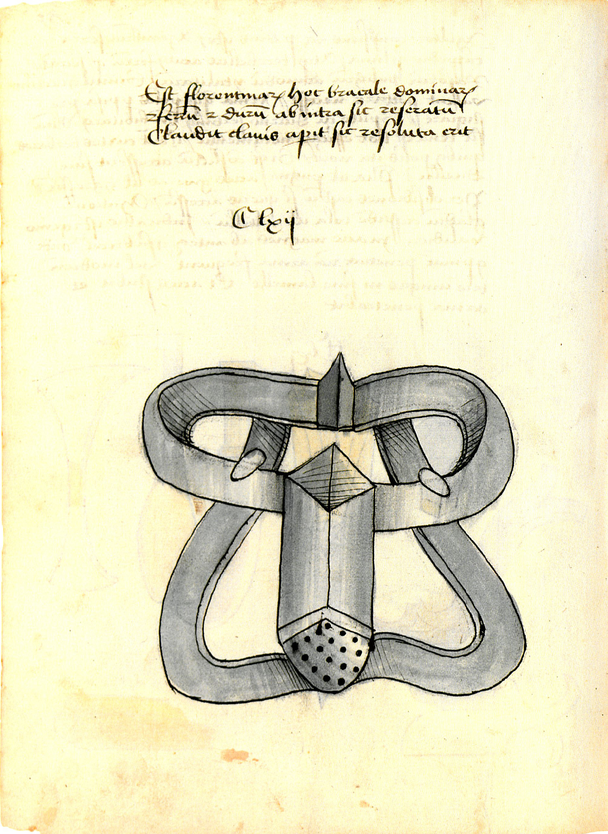 A sketch of a rather cumbersome-looking chastity belt in a 15th century manuscript of "Bellifortis", a late 14th-century book on military technology by retired soldier Kyeser von Eichstadt (born 1366). For discussion, see The Girdle of Chastity: A Medico-Historical Study by Eric John Dingwall.[1] Original Latin description: Est Florentinarum hoc bracale dominarum et ferreum et durum, ab intra sic reseratum. Claudit clavis, aperit sic resoluta erit